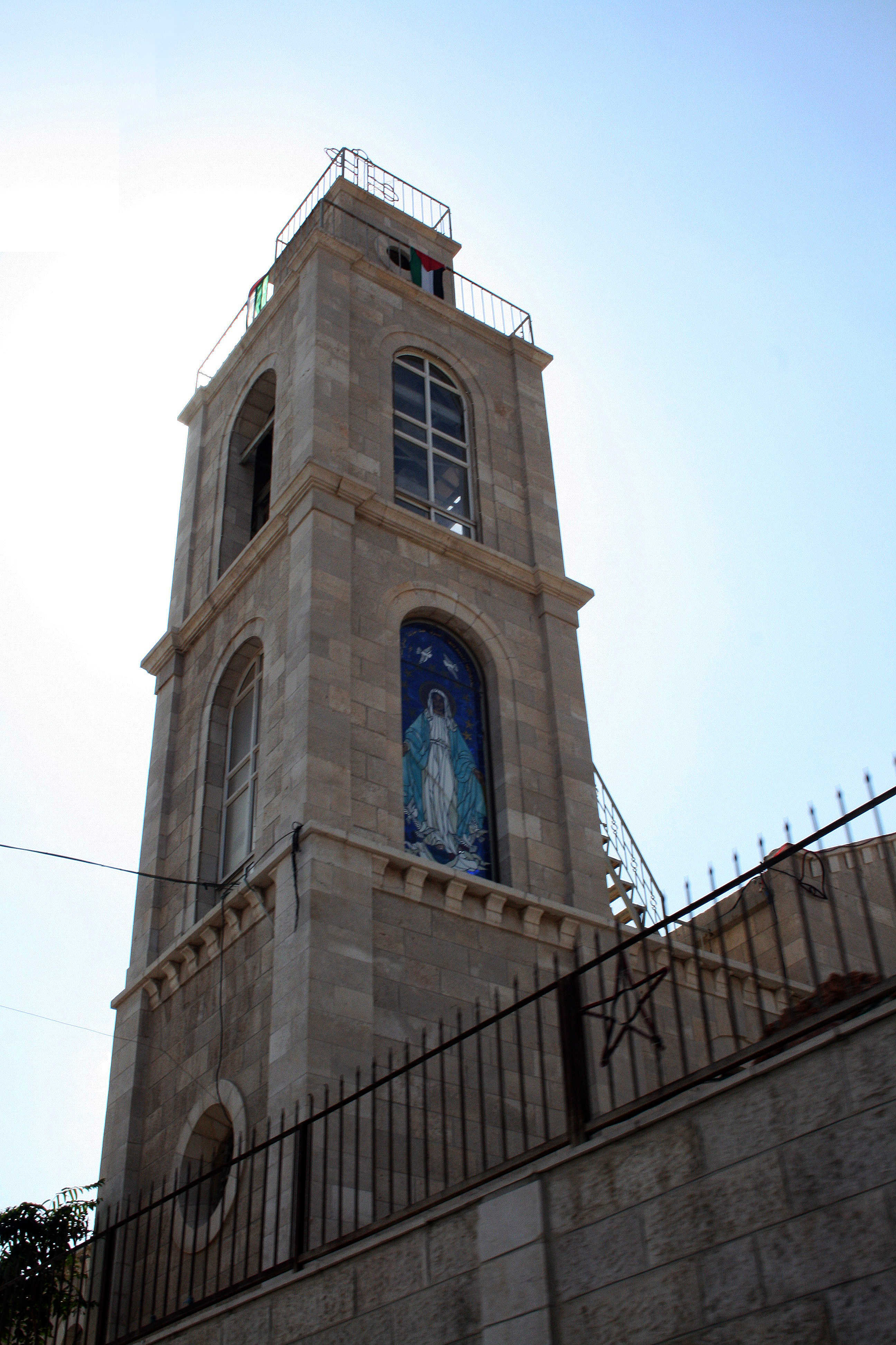 Roman Catholic church of Shepherds Field Chapel, Bethlehem, Palestine